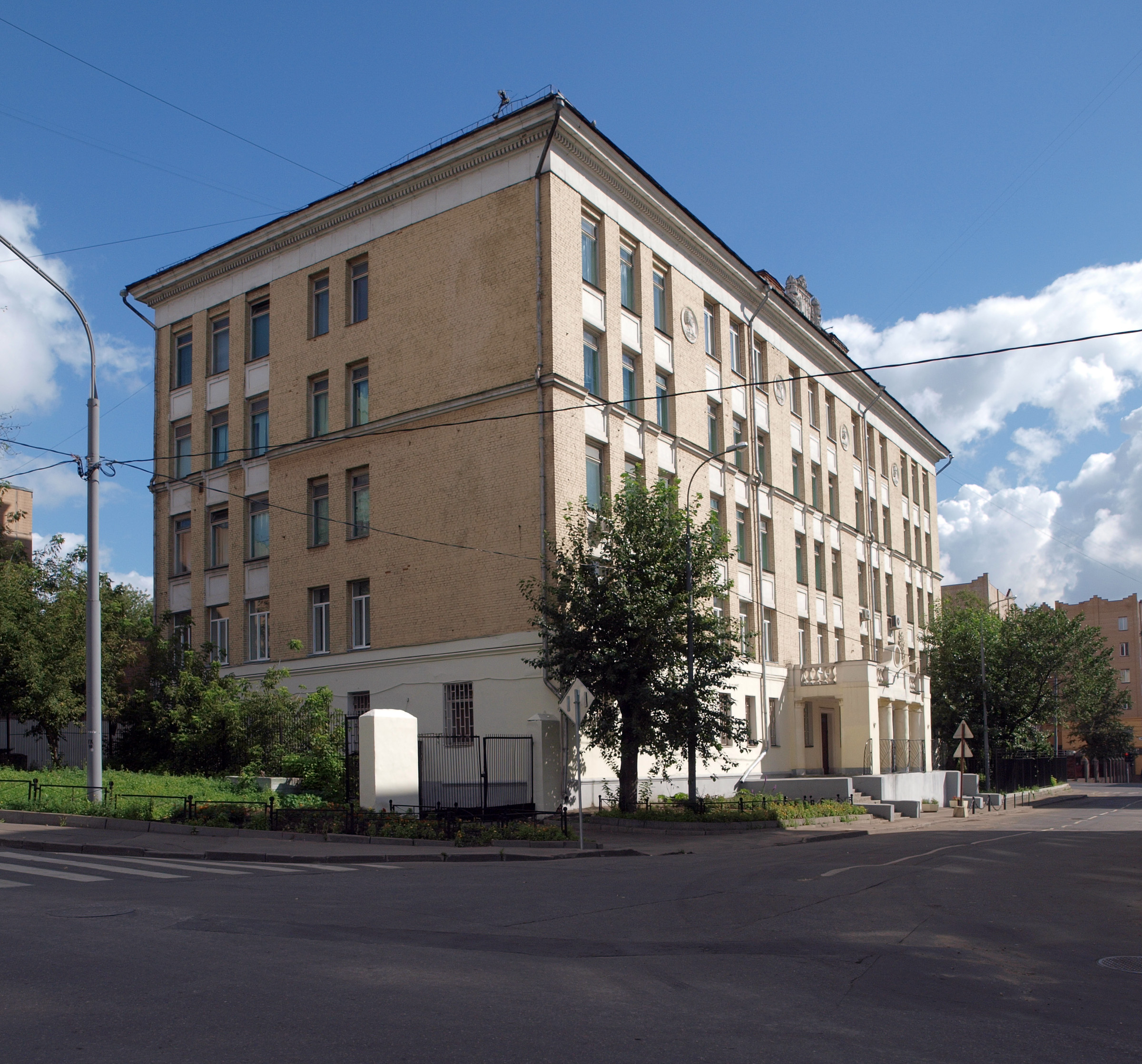 School no. 1581, Moscow (claims to be affiliated with the Bauman State University) - 7, Bolshoy Poluyaroslavsky Lane